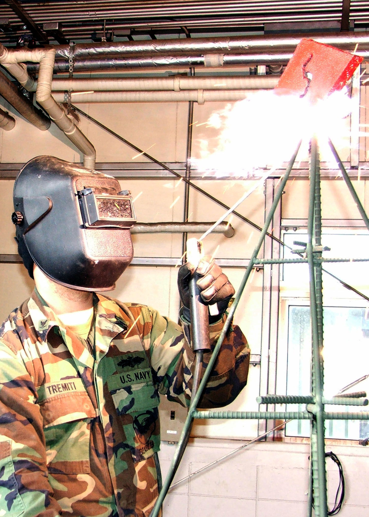 FUJI, Japan (Jan. 2, 2008) Steelworker 3rd Class Phillip J. Tremiti, assigned to Naval Mobile Construction Battalion (NMCB) 5, welds together a traditional "Seabee Christmas Tree" made of reinforced steel bars for the holiday season. NMCB-5 is deployed to 11 locations to provide construction support in the Pacific Command's area of responsibility. U.S. Navy photo by Mass Communication Specialist 3rd Class Patrick W. Mullen III (Released)